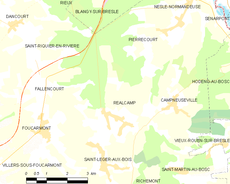 Map of French municipality Réalcamp